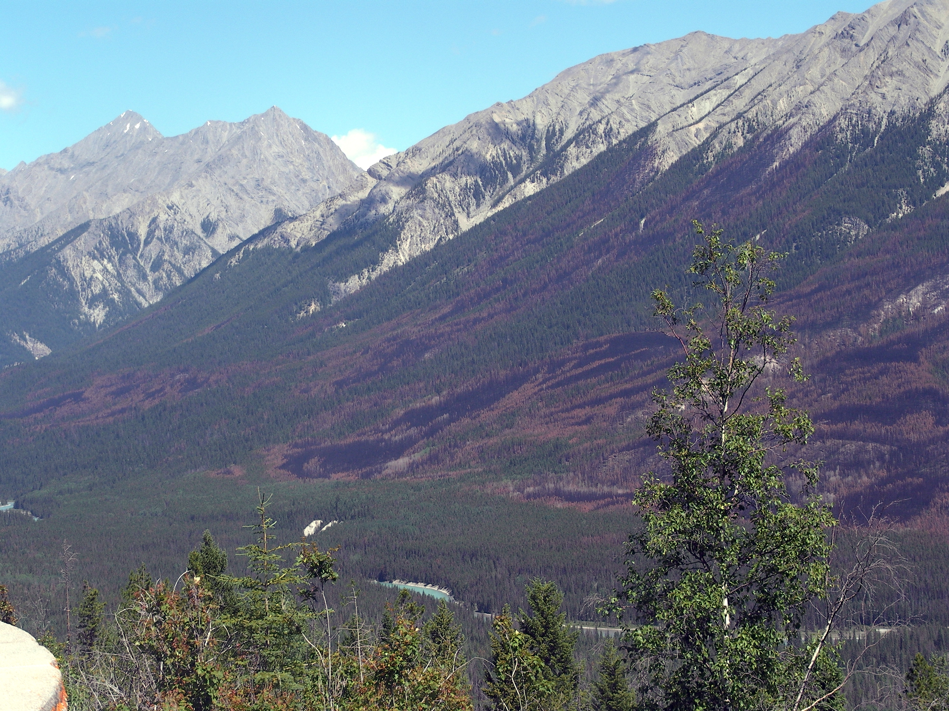 Kootenay Valley in Kootenay National Park, British Columbia, Canada, with forest fire damage.